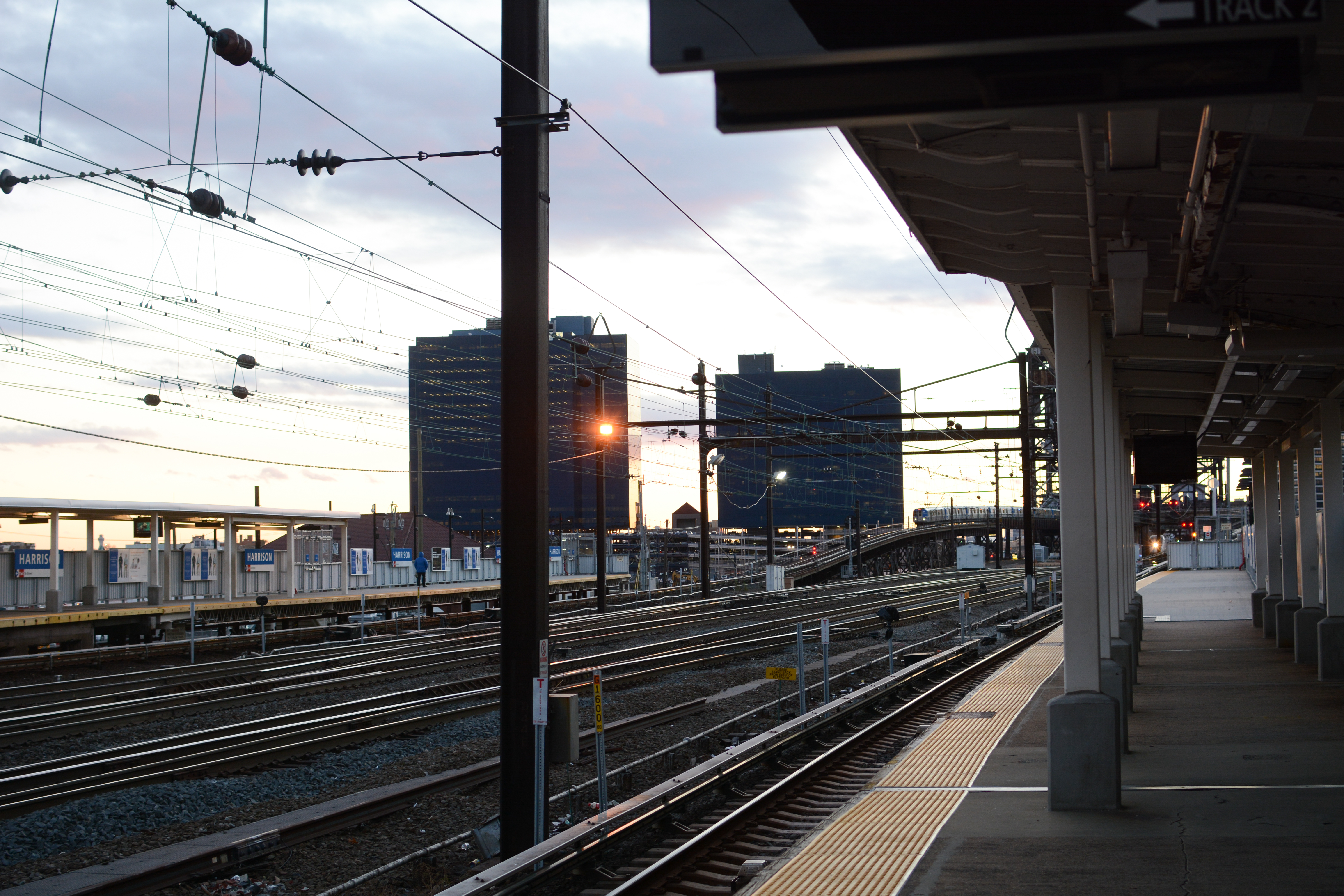 Harrison Station, at dusk.